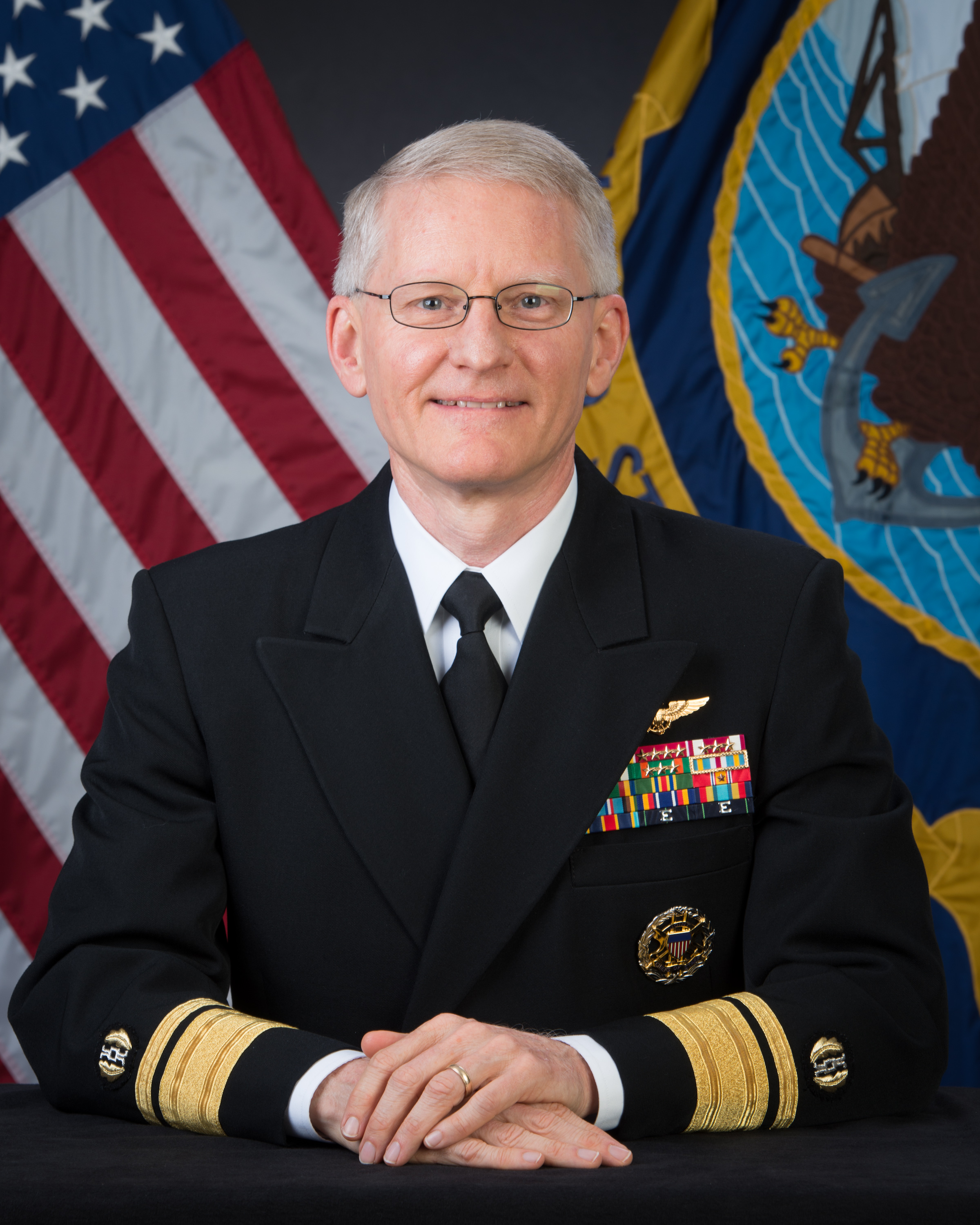 Rear Adm. (upper half) John G. Hannink, Deputy Judge Advocate General